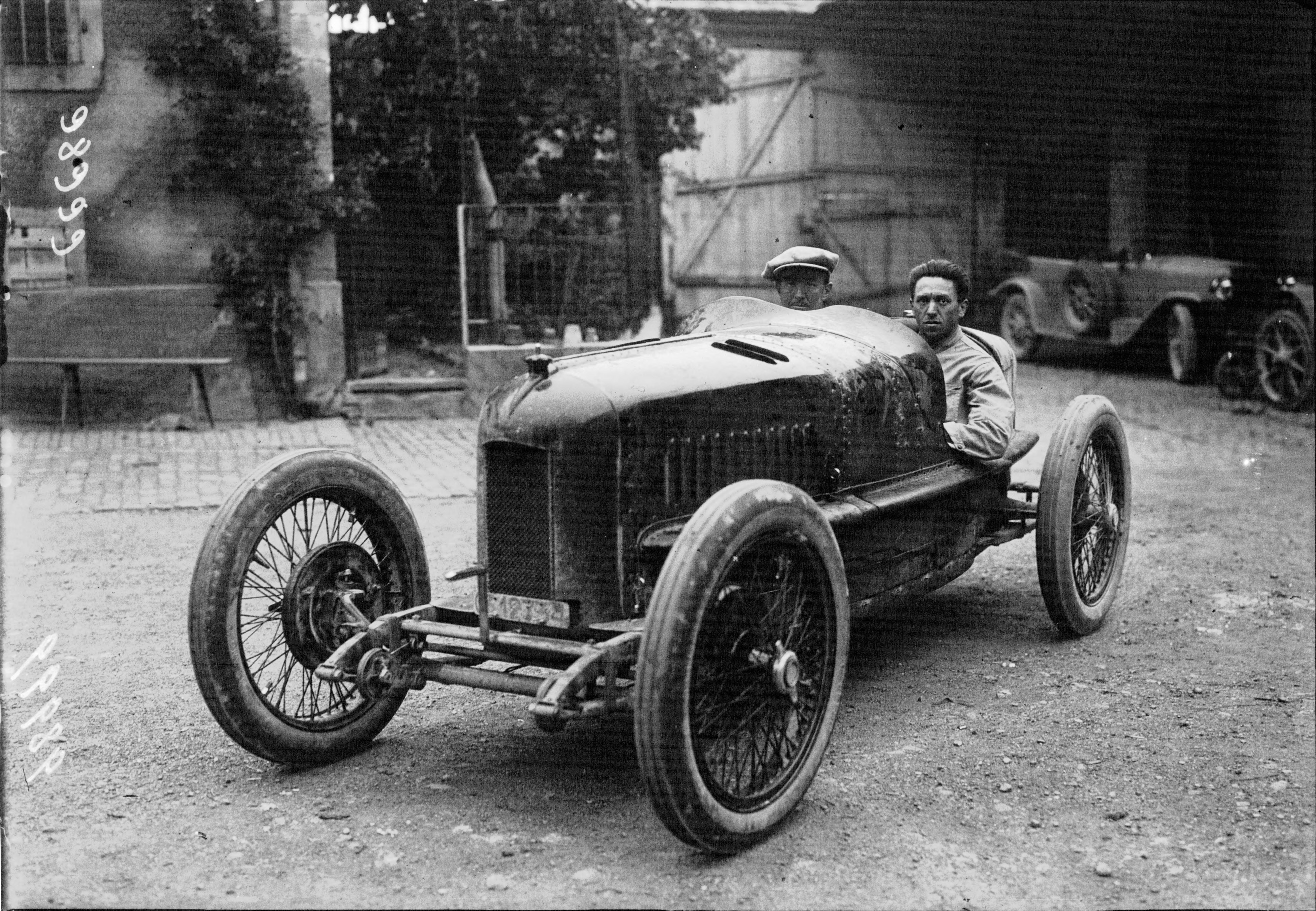 Pietro Bordino at the 1922 French Grand Prix with Fiat 804 2-litre 6-cyl